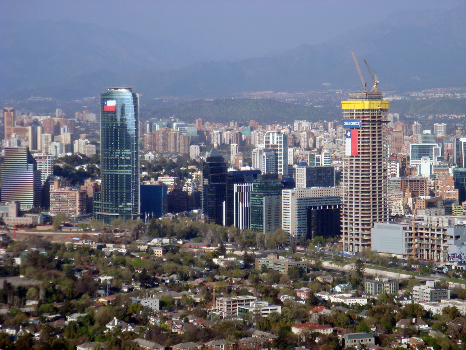 Titanium La Portada and Torre Gran Costanera buildings from San Cristóbal Hill, Santiago, Chile.